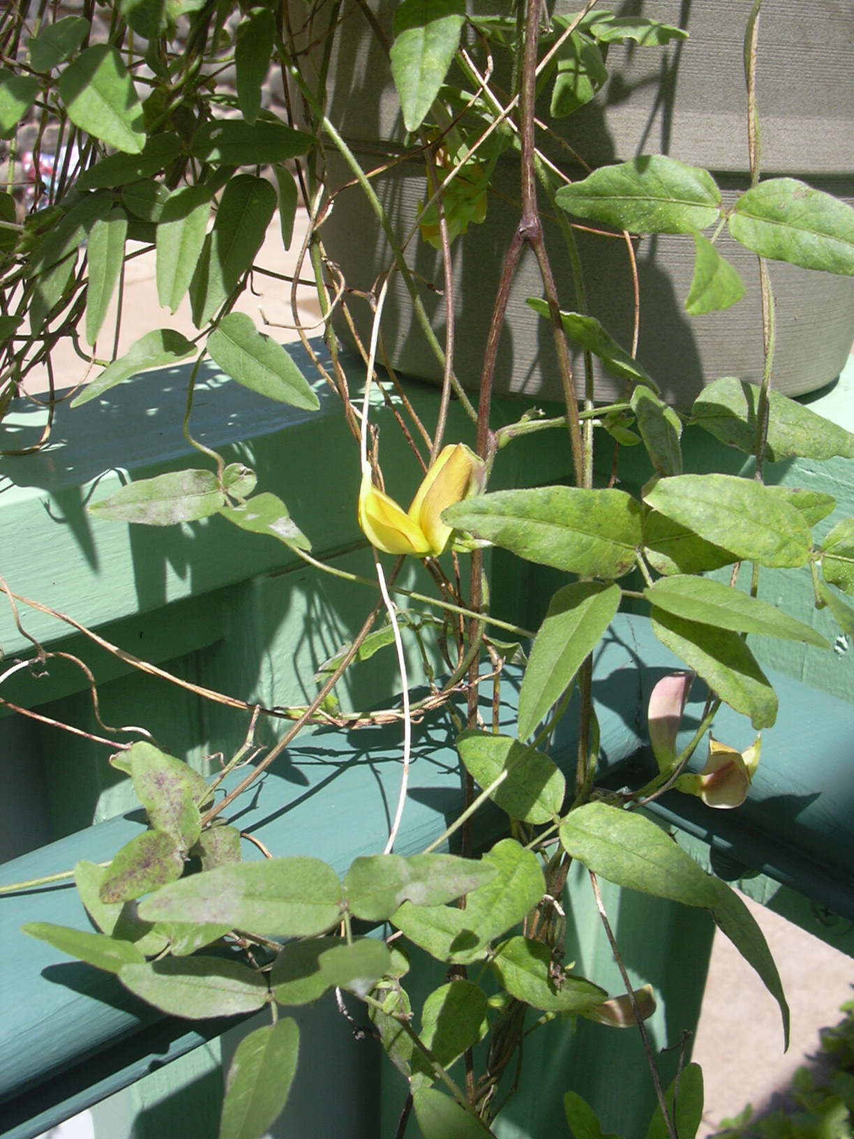 Vigna o-wahuensis (flower). Location: Maui, Maui Nui Botanical Garden